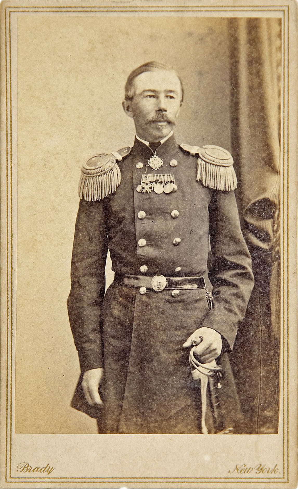 Robert A. Lund (? 1827 - December 1, 1875) - circumnavigator, Captain 1st rank of Russian Navy, writer, contributor to the magazine (alias RL) "Sea Collection" in 1850-60's